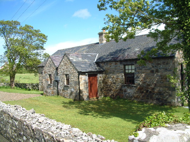 Labasheeda School. Former Labasheeda National School built in 1887 is now a self-catering establishment.